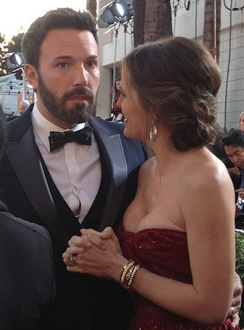 golden globes 2013 affleck garner